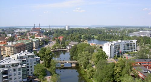 Downtown Linköping, high above river Stångån, looking north.